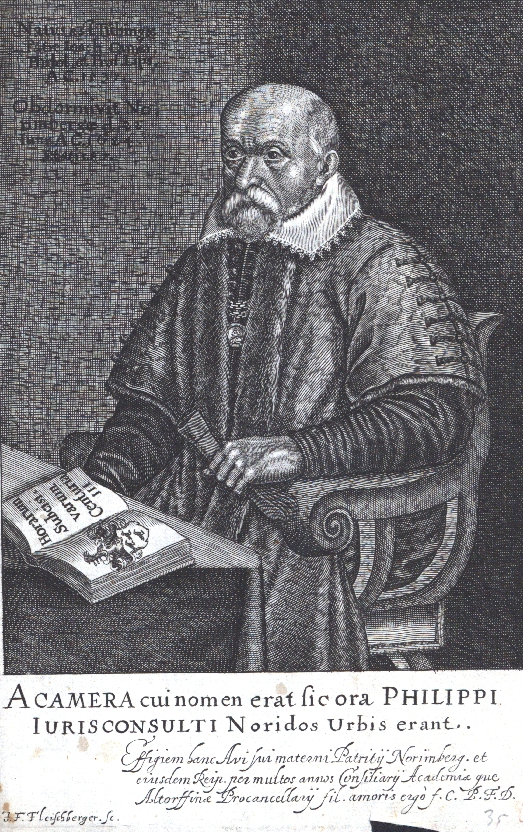 Portrait of Philipp Camerarius (1537–1624). Etching by Johann Friedrich Fleischberger. Cropped Version.